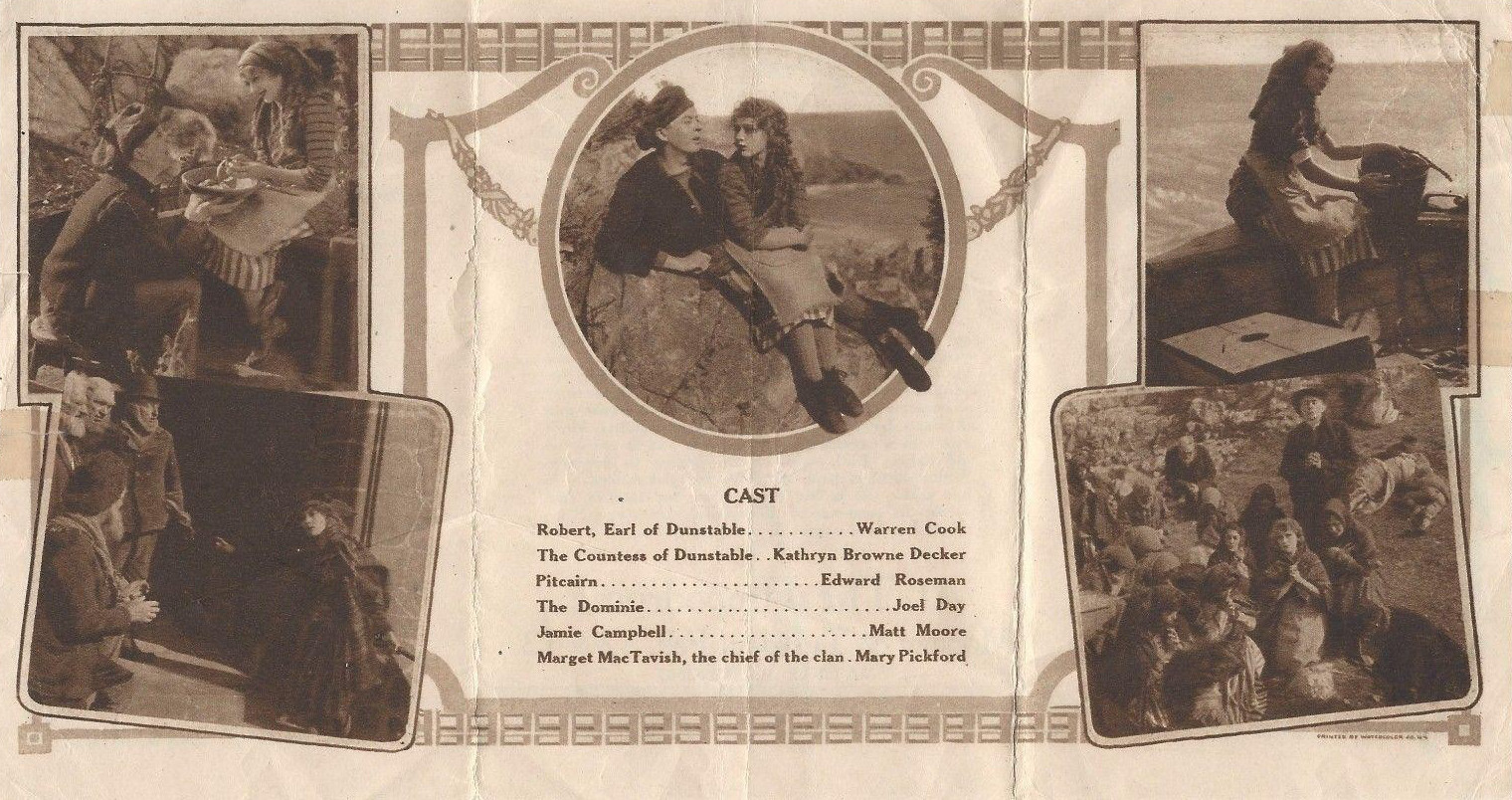 Publicity pamphlet for the 1917 film The Pride of the Clan